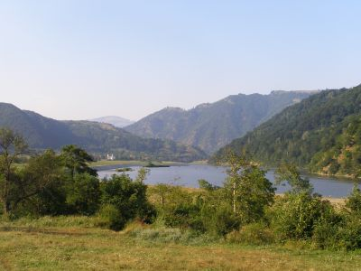 Landscape in Transylvania, Romania